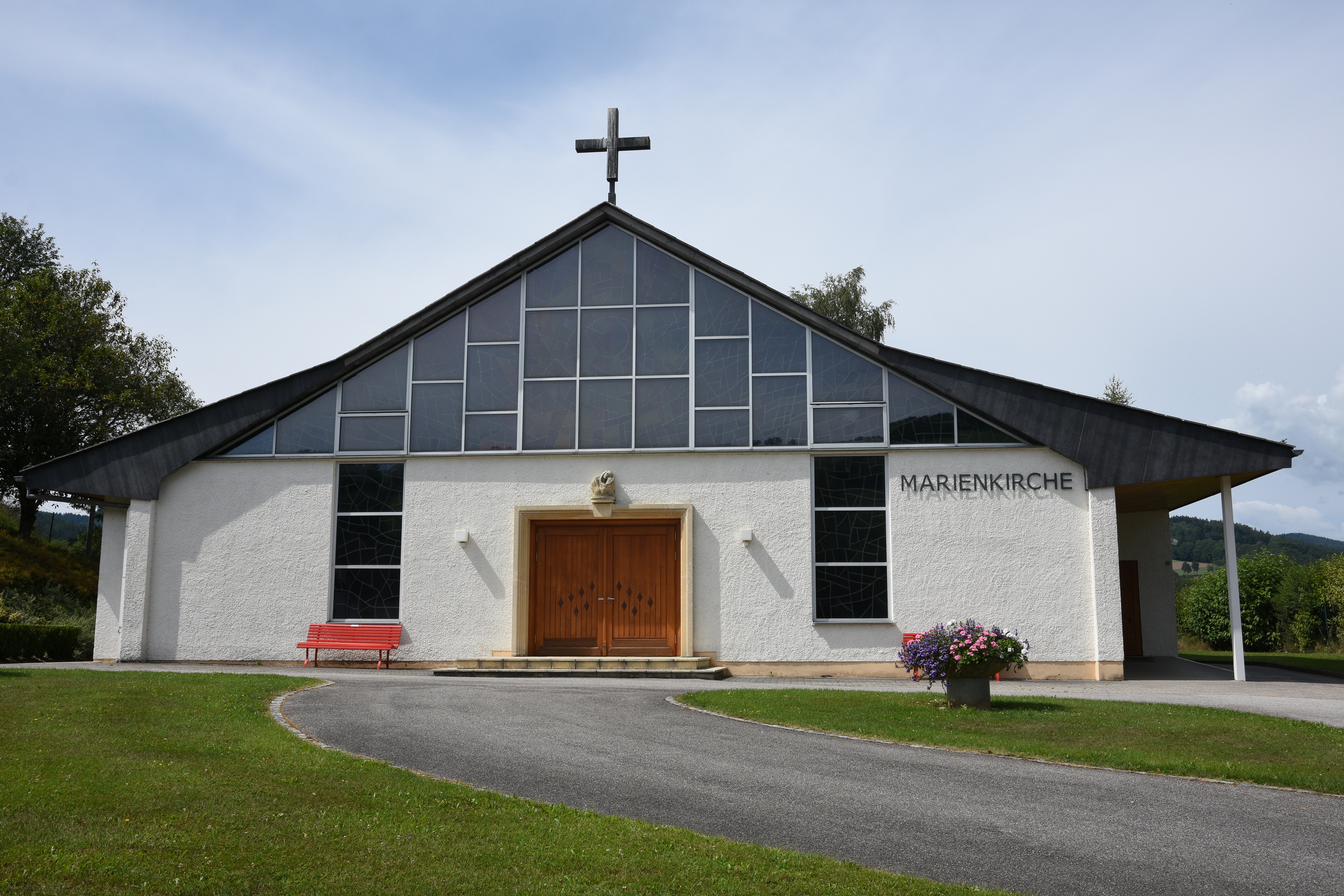 Saint Mary Church (Bad Schönau)